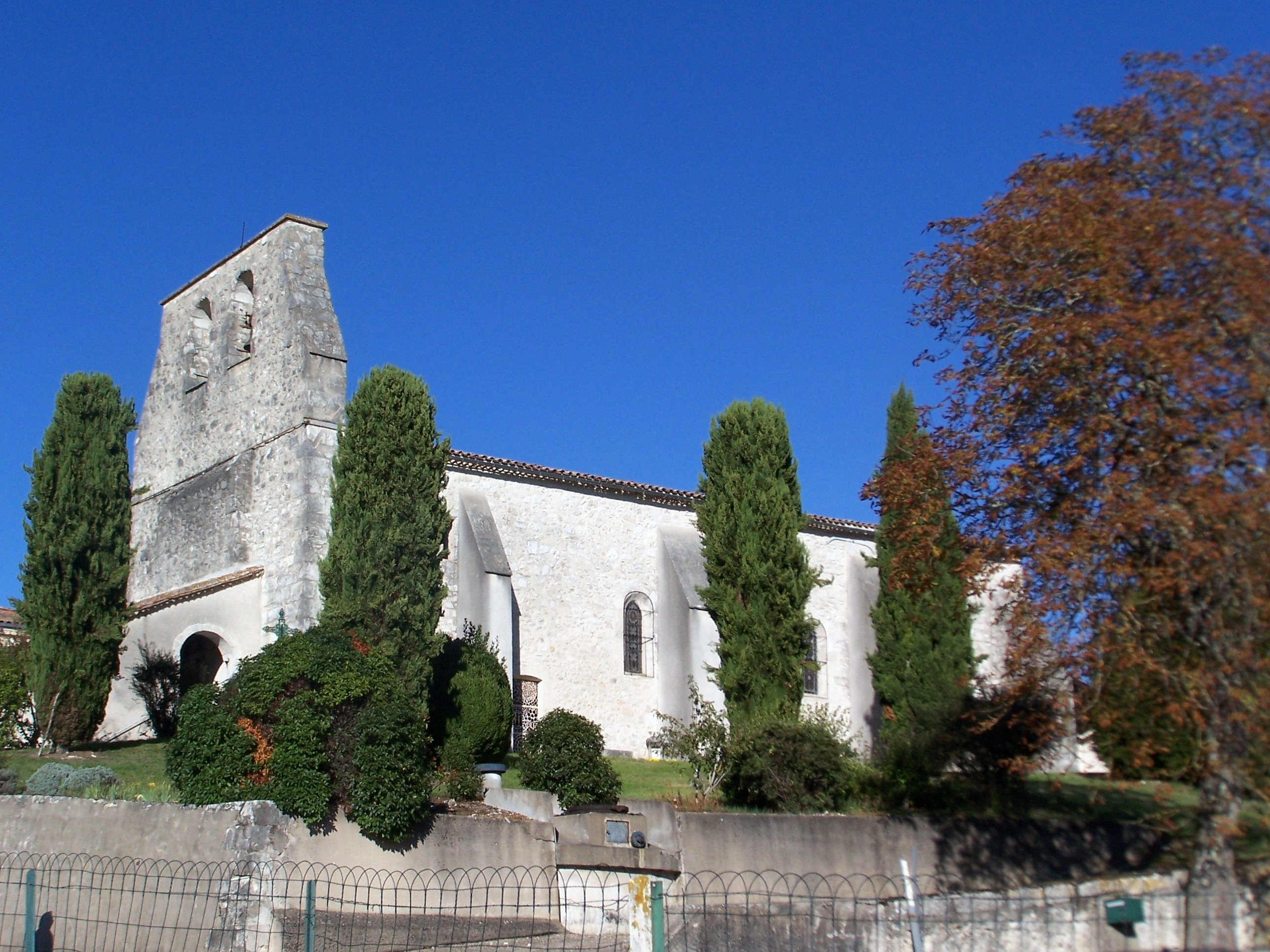 Our Lady church of Pardaillan (Lot-et-Garonne, France)